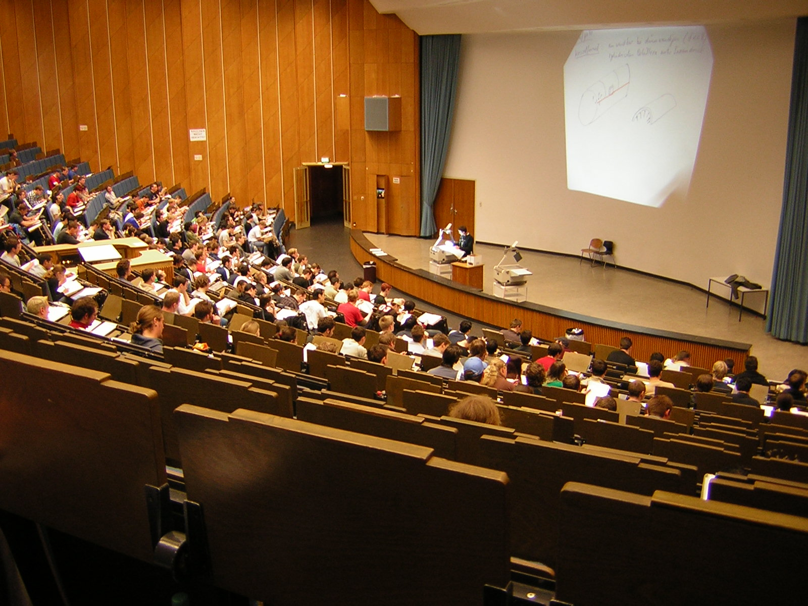 Master class at the Technical University of Aachen, in the city of Aachen (North Rhine-Westphalia, Germany); date: 2005.